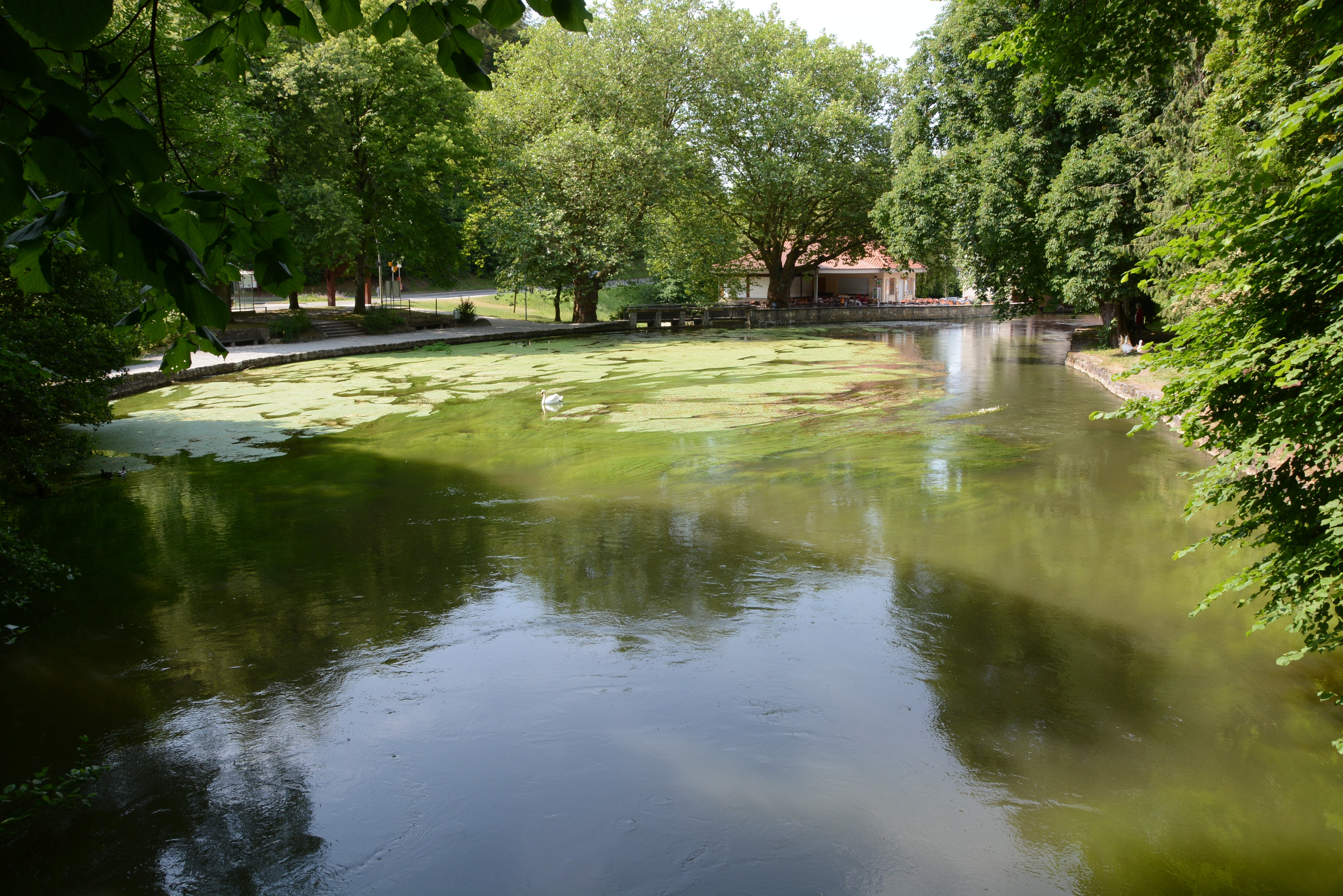 Aach spring, view from above the spring along the flowing river